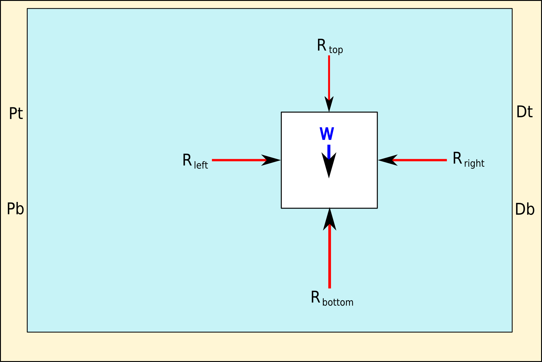 Forces on an immersed cube